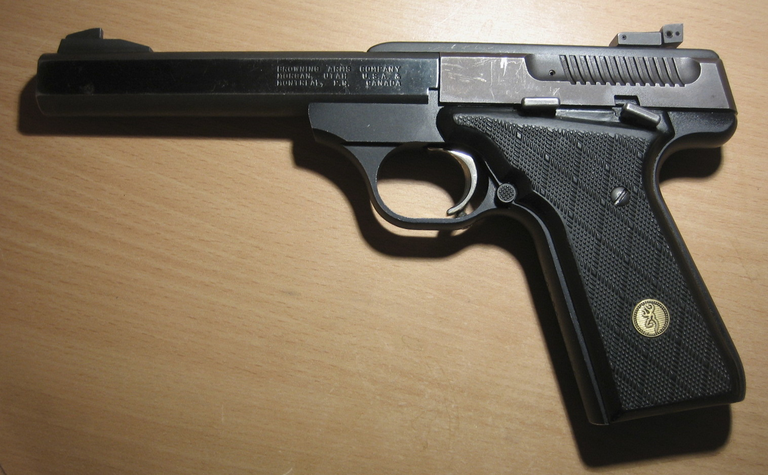 Picture of my Browning Buckmark pistol in .22LR